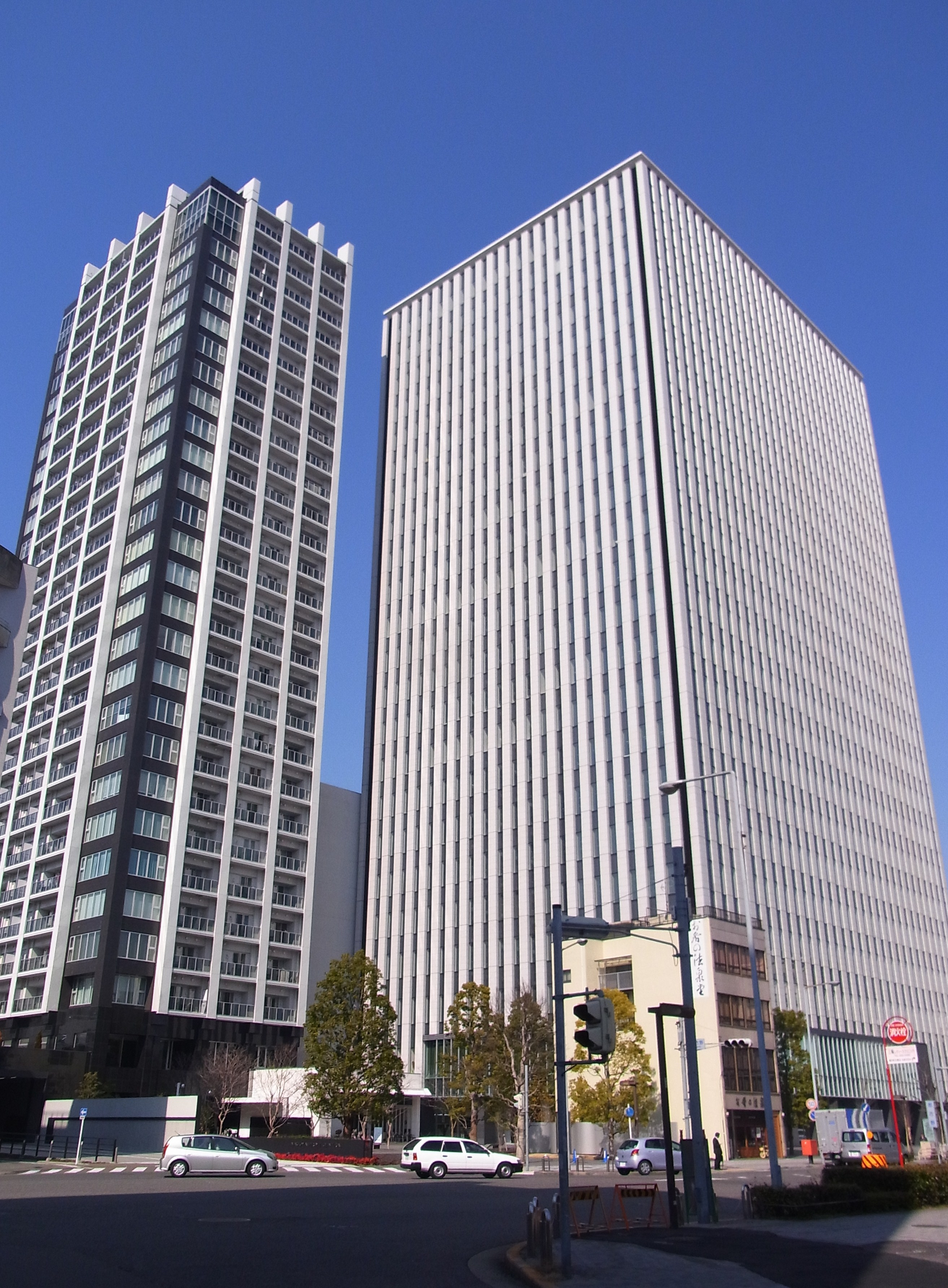 Nagoya Prime Central Tower in Nishi-ku Ward, Nagoya City.